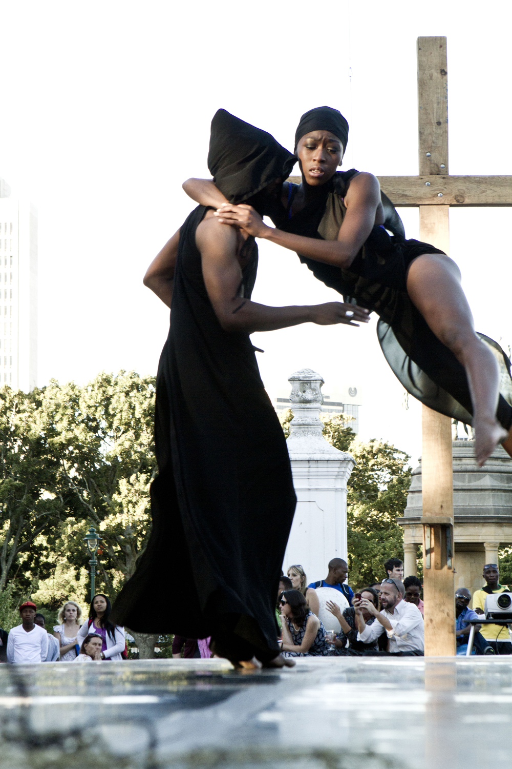 Infecting the City 2012. Africa Centre